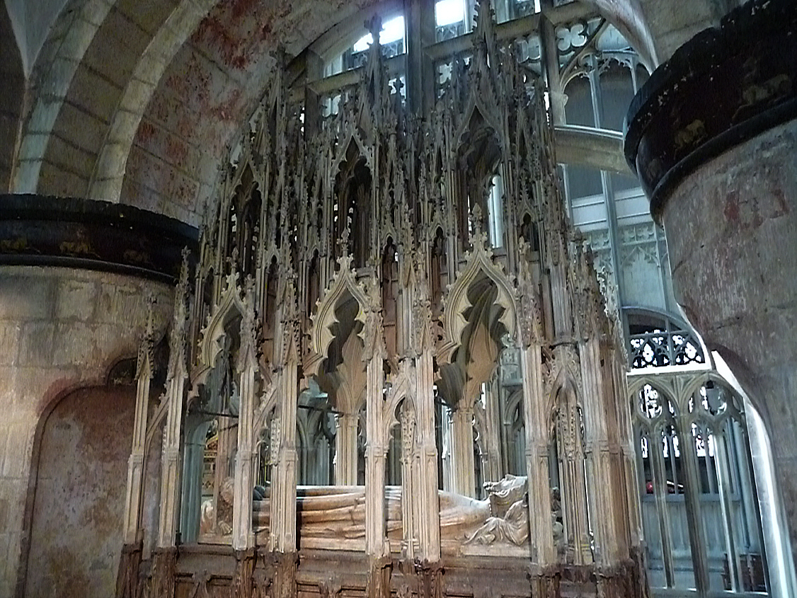 Edward ll tomb